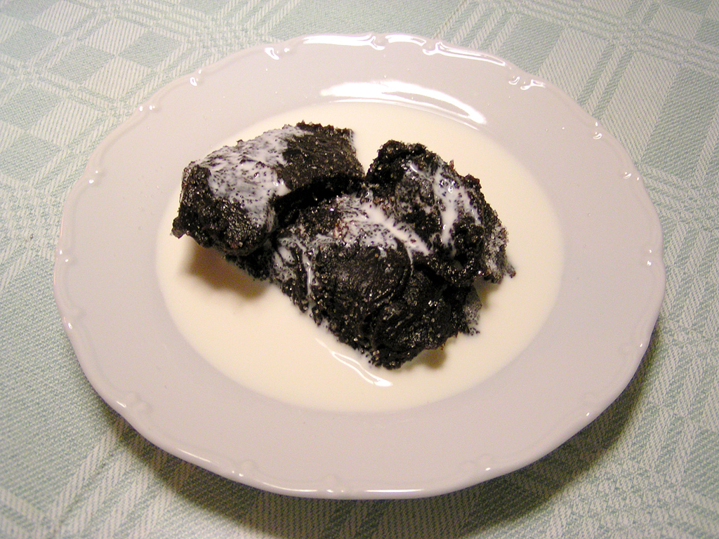 Image of Mämmi, the Finnish Easter dish served with coffee cream and sugar. Picture taken by Strangnet